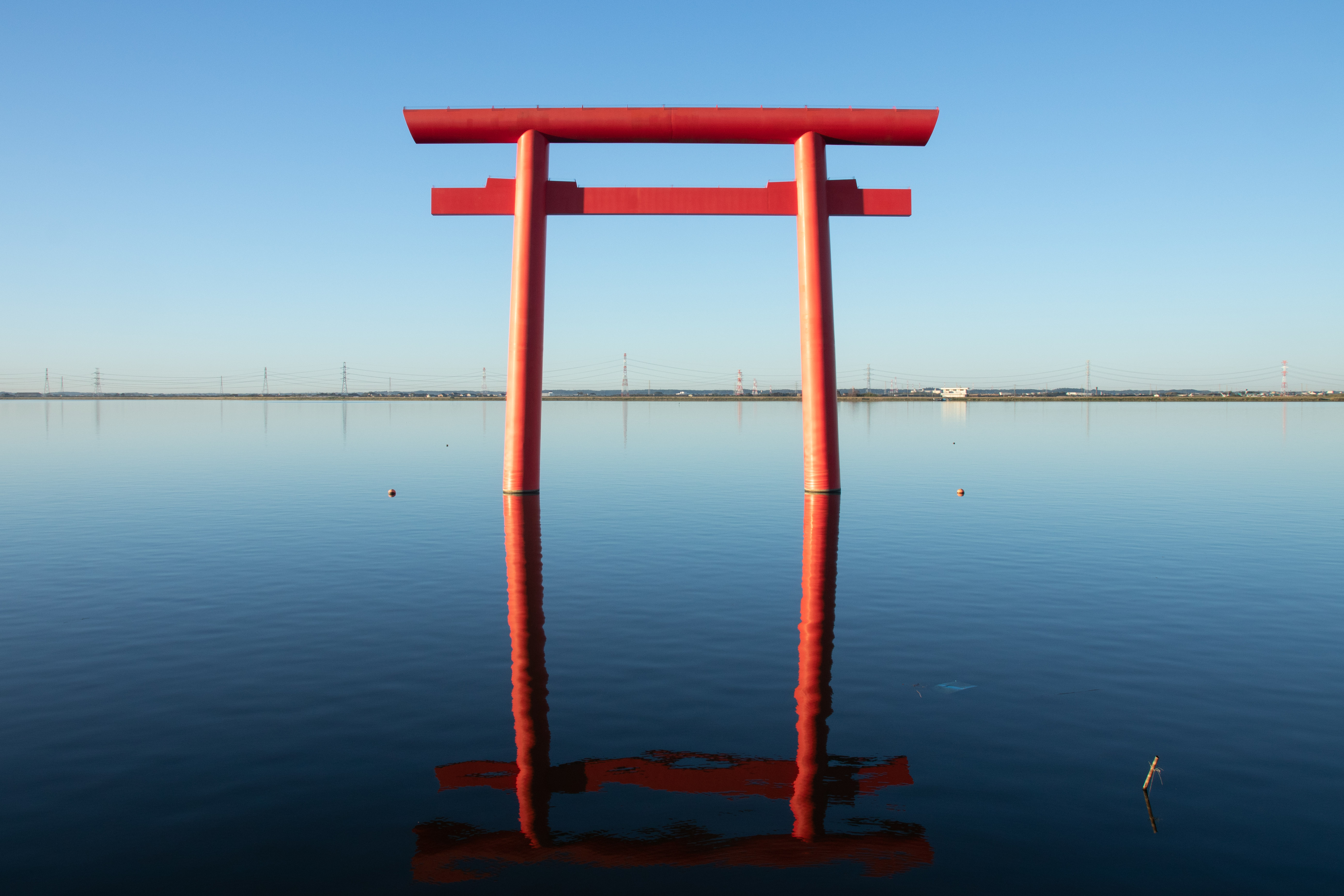 Kashima Shrine, Kashima City, Ibaraki Pref., JapanCanon EOS 80D + Sigma 17-70mm F2.8-4 DC Macro OS HSM